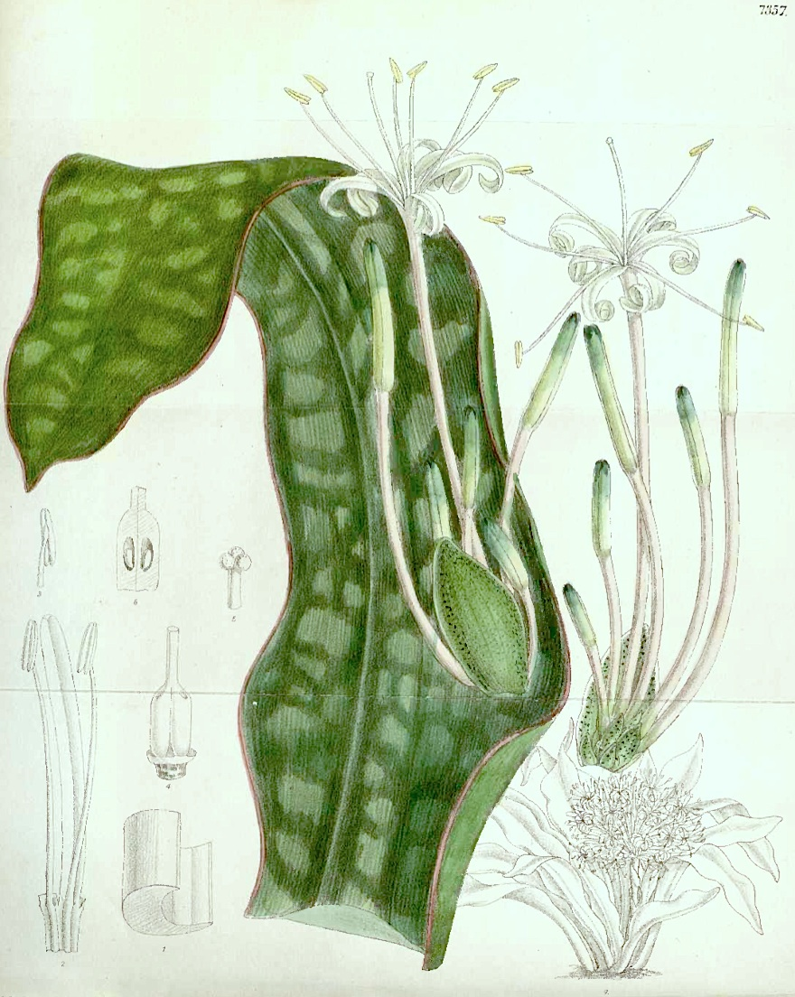 Sansevieria kirkii